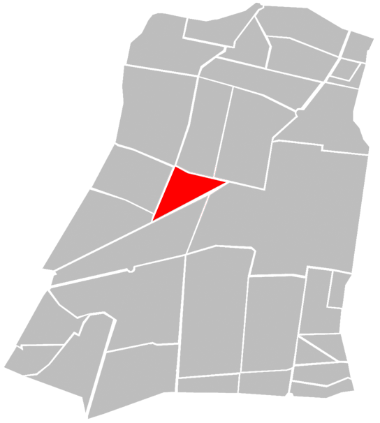 Map of Delegación Cuauhtémoc in Mexico City, with Colonia Tabacalera highlighted in red